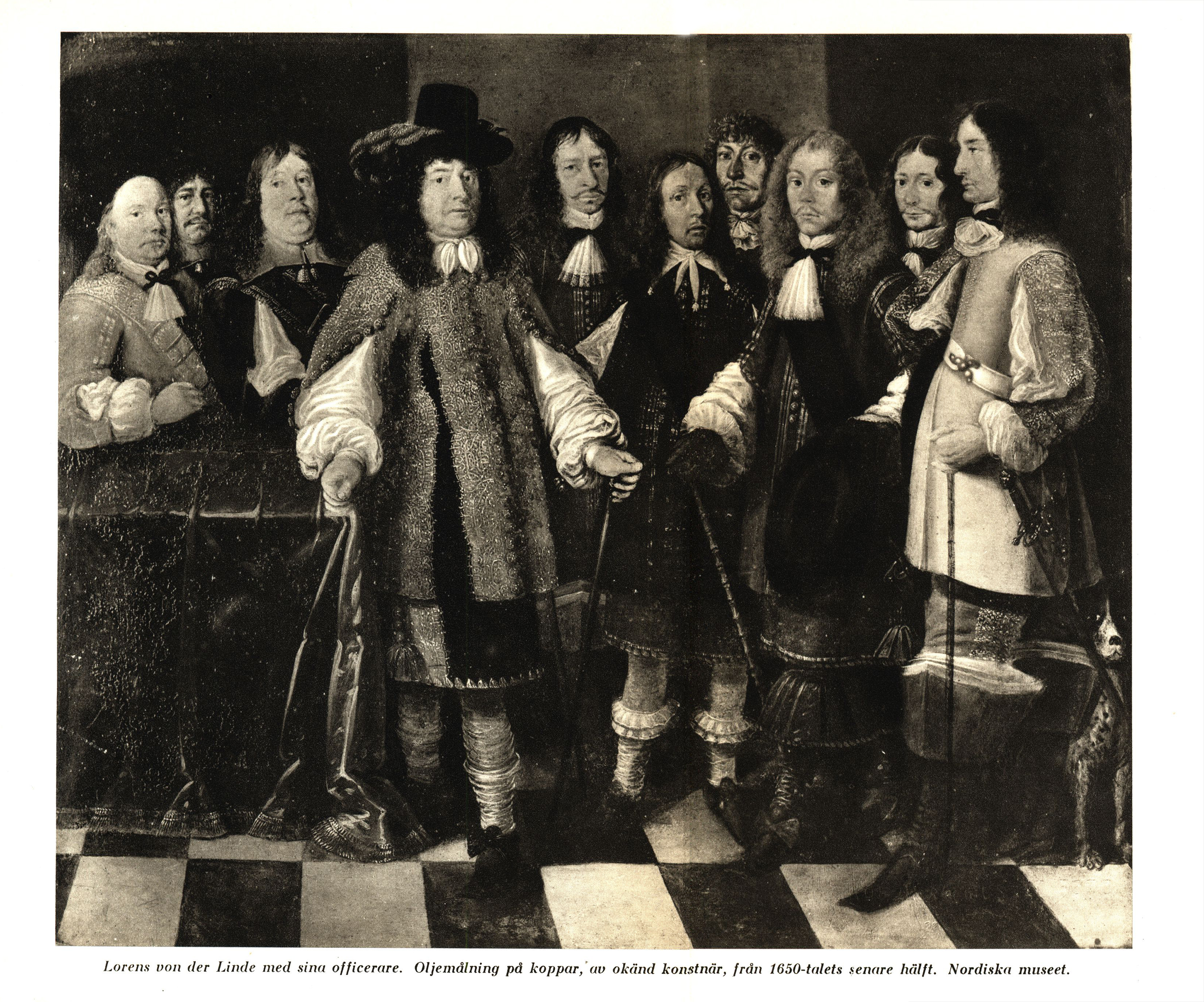 Lorens von der Linde (1610-1670) with his officers. Oilpainting on copper